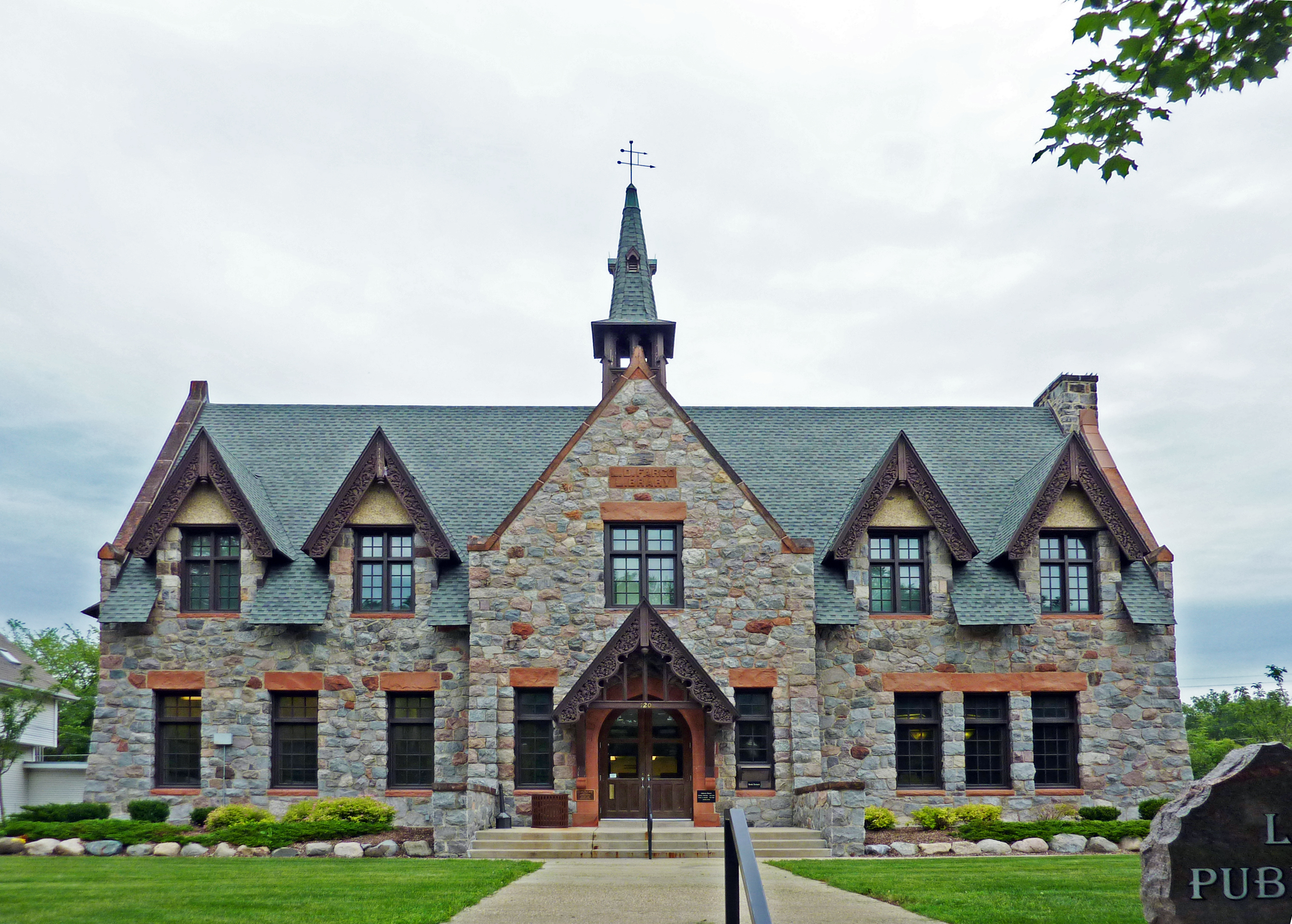 The L. D. Fargo Public Library at 120 E. Madison Street in Lake Mills, Wisconsin, was designed in a late Gothic revival style with Storybook elements by the Milwaukee architectural firm of Ferry & Clas and constructed 1899-1902. It was added to the National Register of Historic Places in 1982.